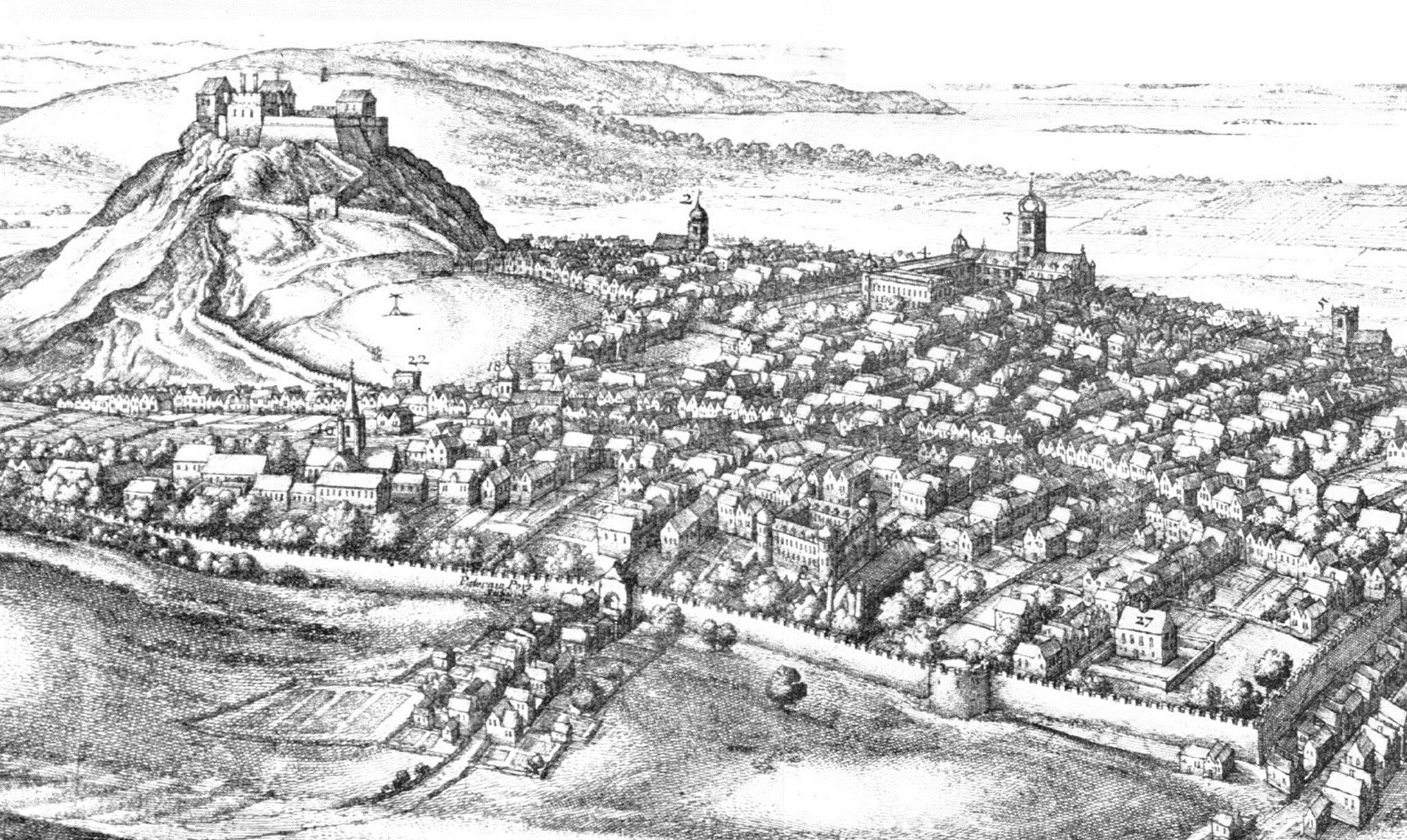 "The Citie of Edinburgh from the South" (detail) by Wenceslas Hollar (1670). Some artistic licence has been used. For example, no tenements are visible on the north side of the High Street where the slope descends steeply to the Nor Loch. Heriot's Hospital stands east (rather than west) of Potterow Port. This image is annotated on its description page at Commons.